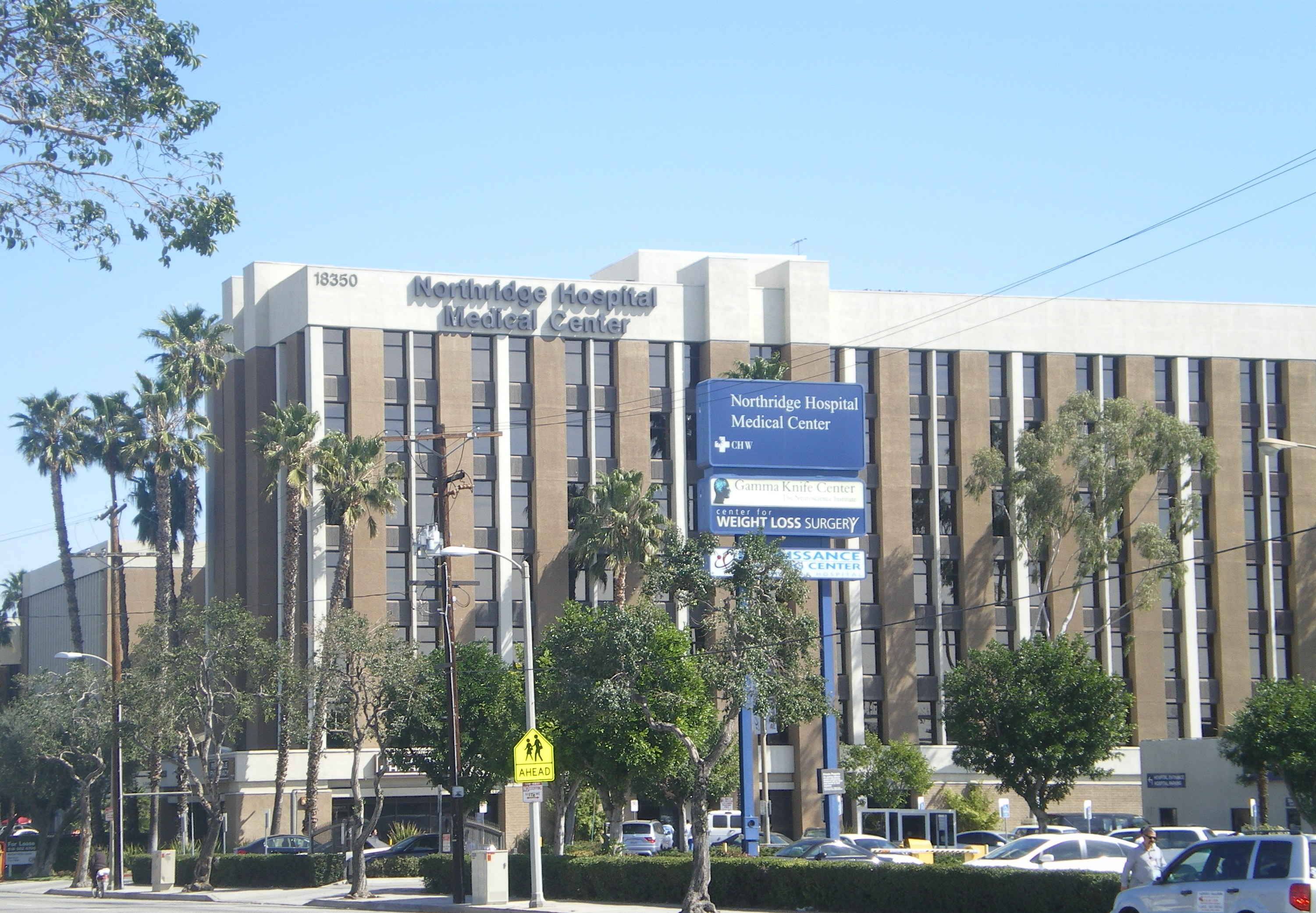 Northridge Hospital Medical Center — at Reseda Boulevard and Roscoe Boulevard, Northridge, Los Angeles, San Fernando Valley, California